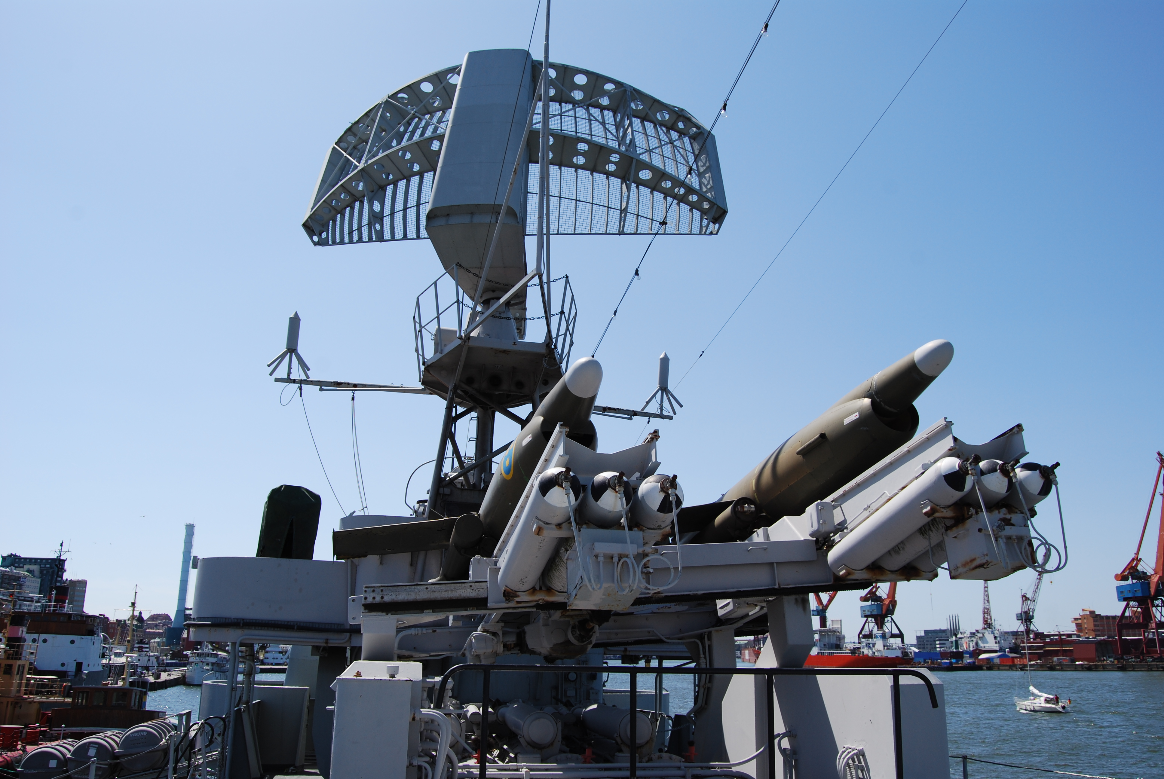 Radar and missiles on the Swedish destroyer HMS Småland.